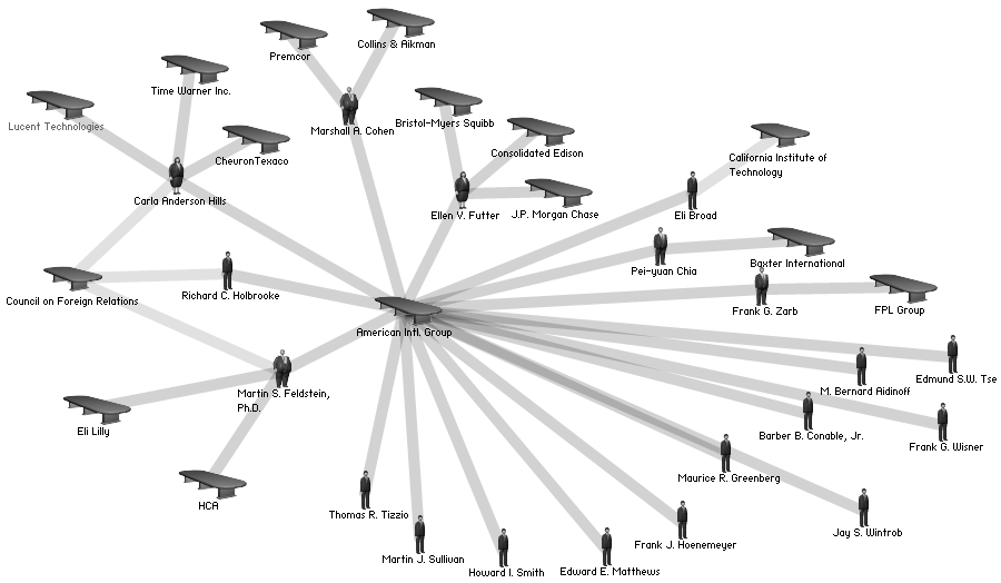 Network diagram of interlocking directorates between the board of American International Group and other U.S. corporations/organizations, in 2004.